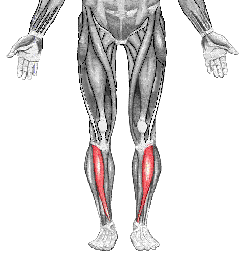 Legs muscles